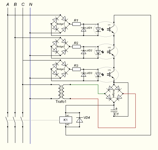 Electronic phase control relay.